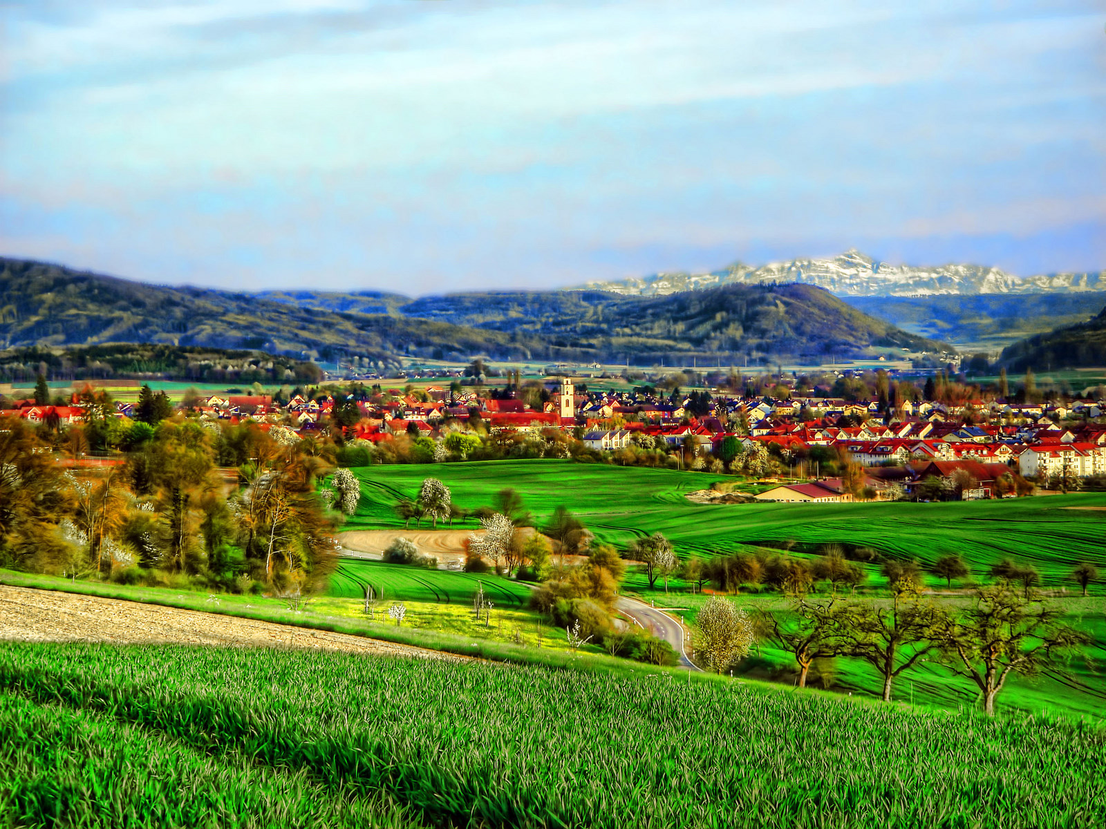 78244 Gottmadingen